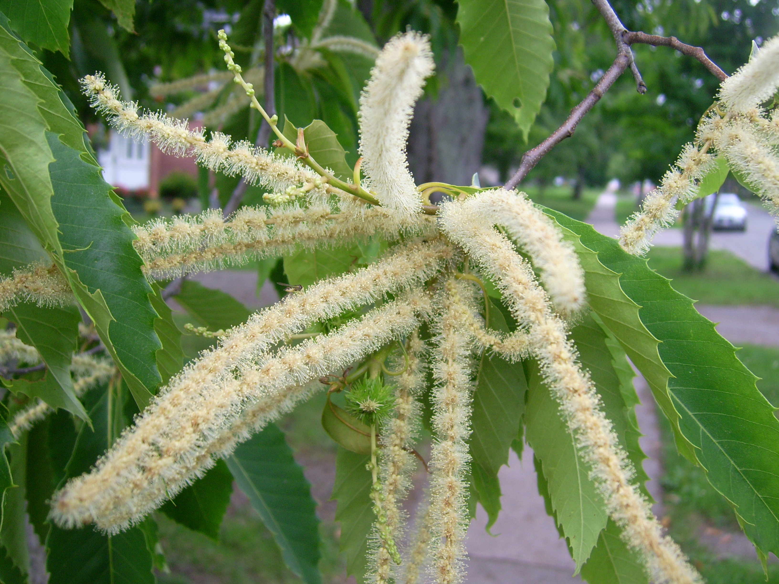 American chestnut flowers (Castanea dentata), Sault Ste. Marie, Ontario (planted specimen)